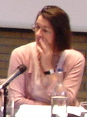 Marina Warner, Oxford Symposium on Food & Cookery, 2007. Held at St Catherine's college. The subject was Eggs.